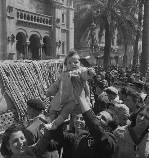 Tunis, Tunisia. Allied troops entering the city